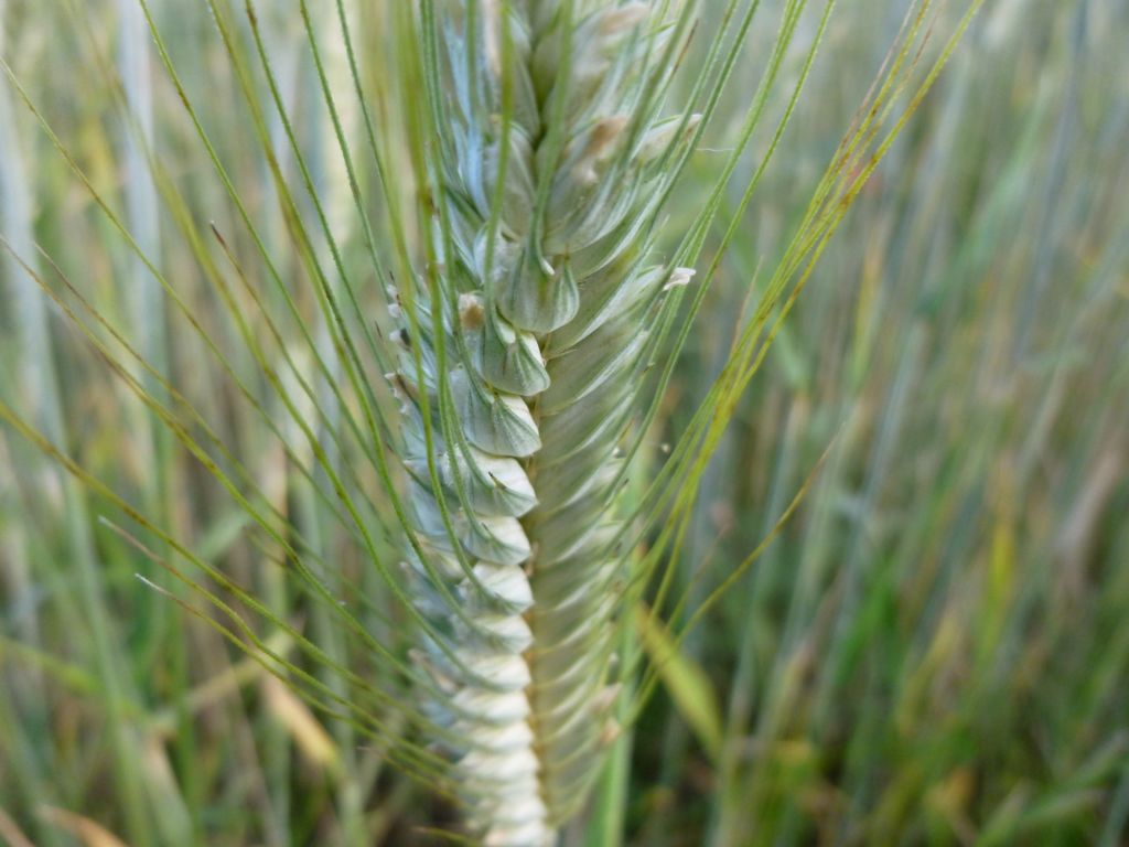 ear of wheat